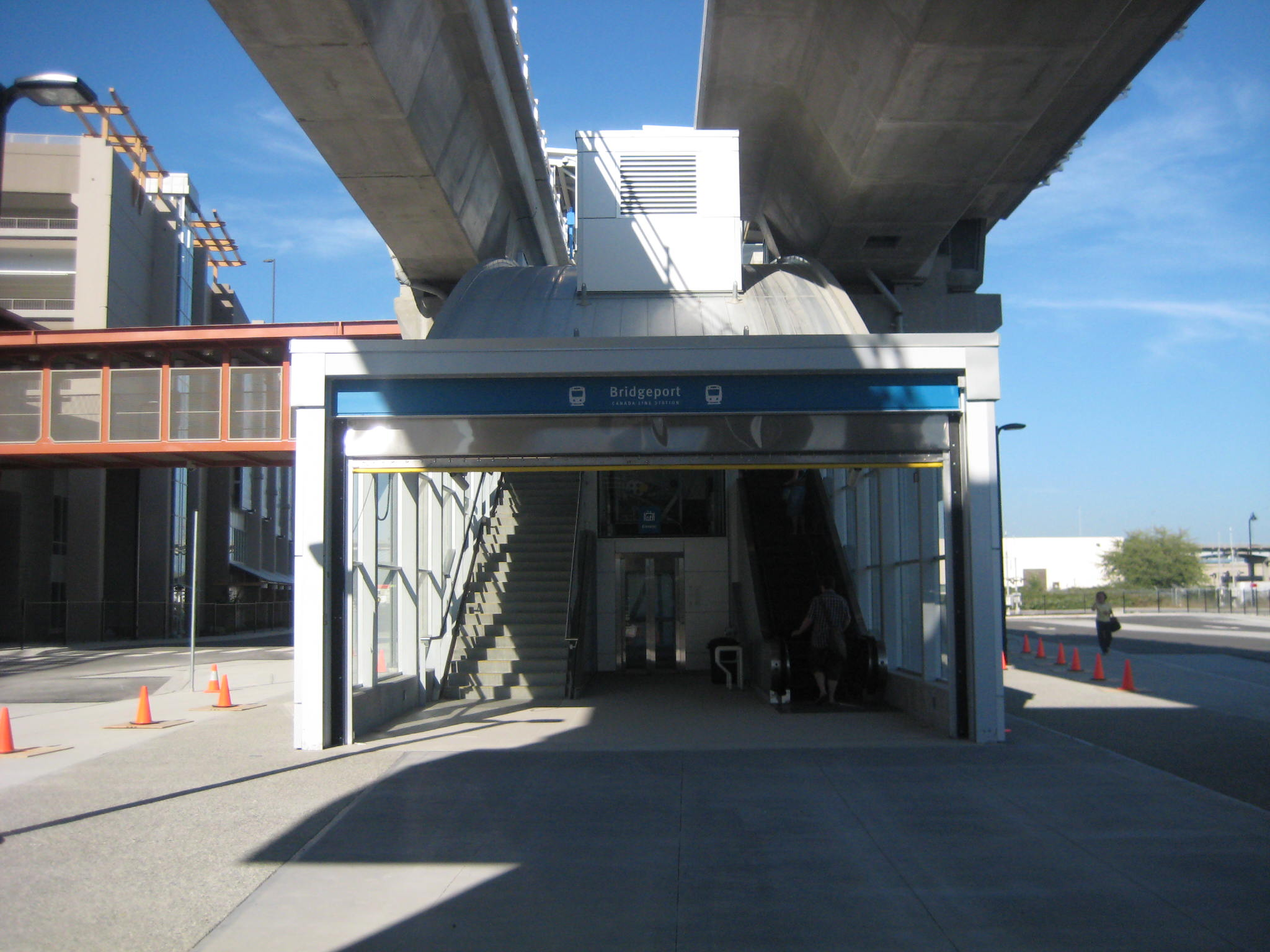 The entrance to Canada Line's Bridgeport Station